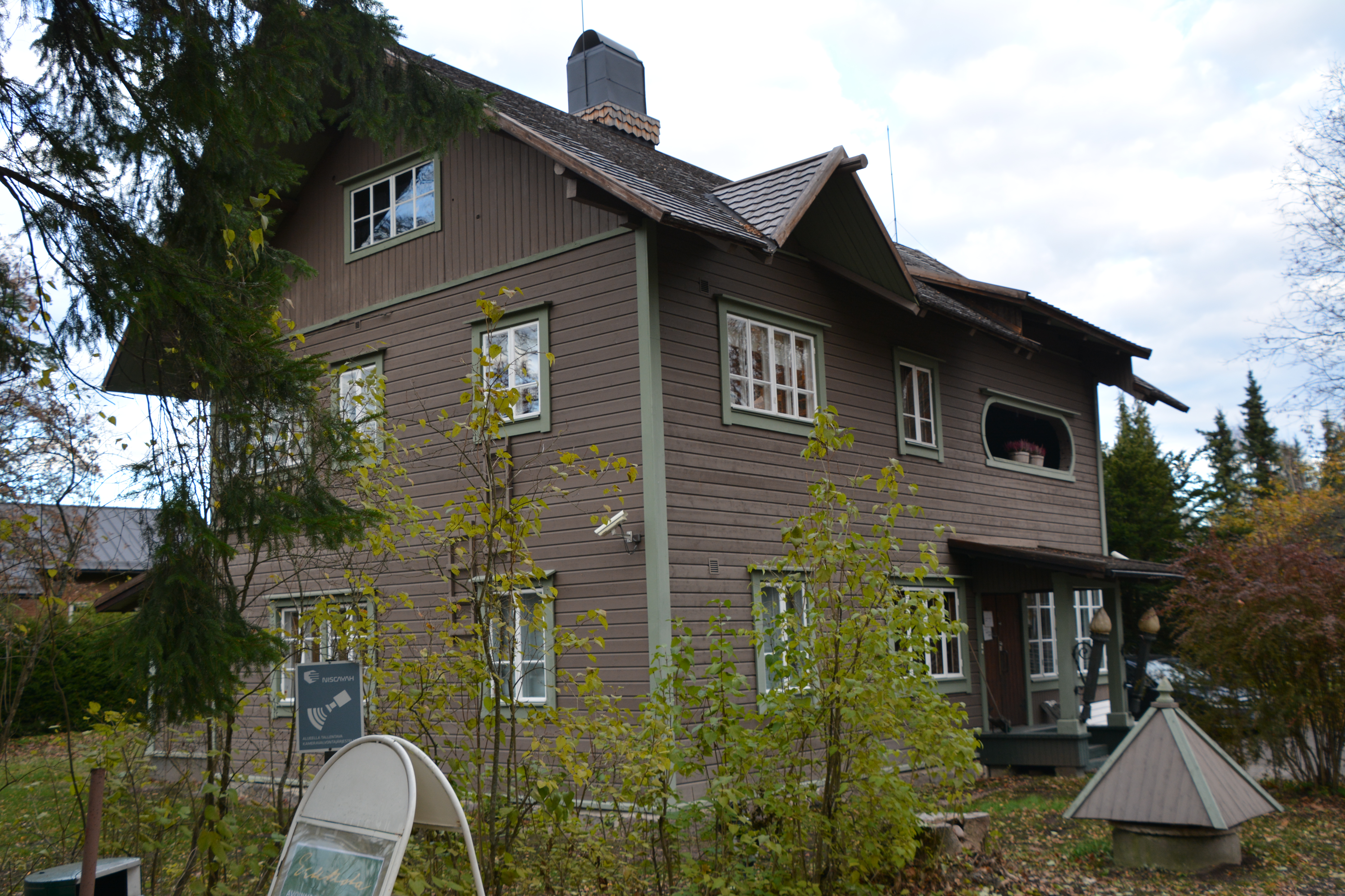 Erkkola, Tuusula/Tusby, Finland